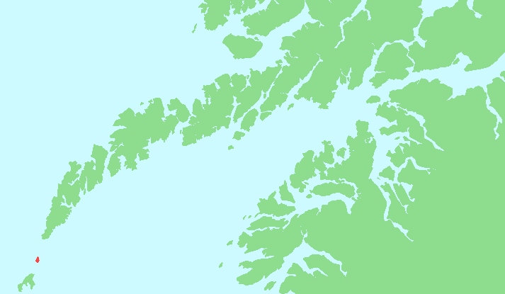 Locator map of Mosken, Nordland, Norway